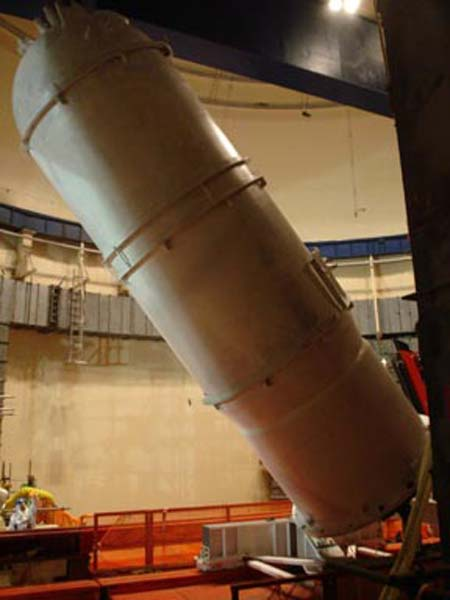 pressurizer